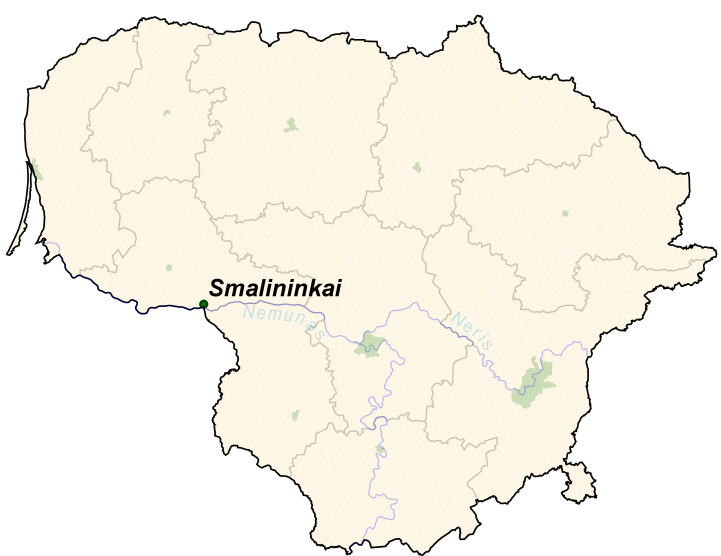 Smalininkai on the map of Lithuania